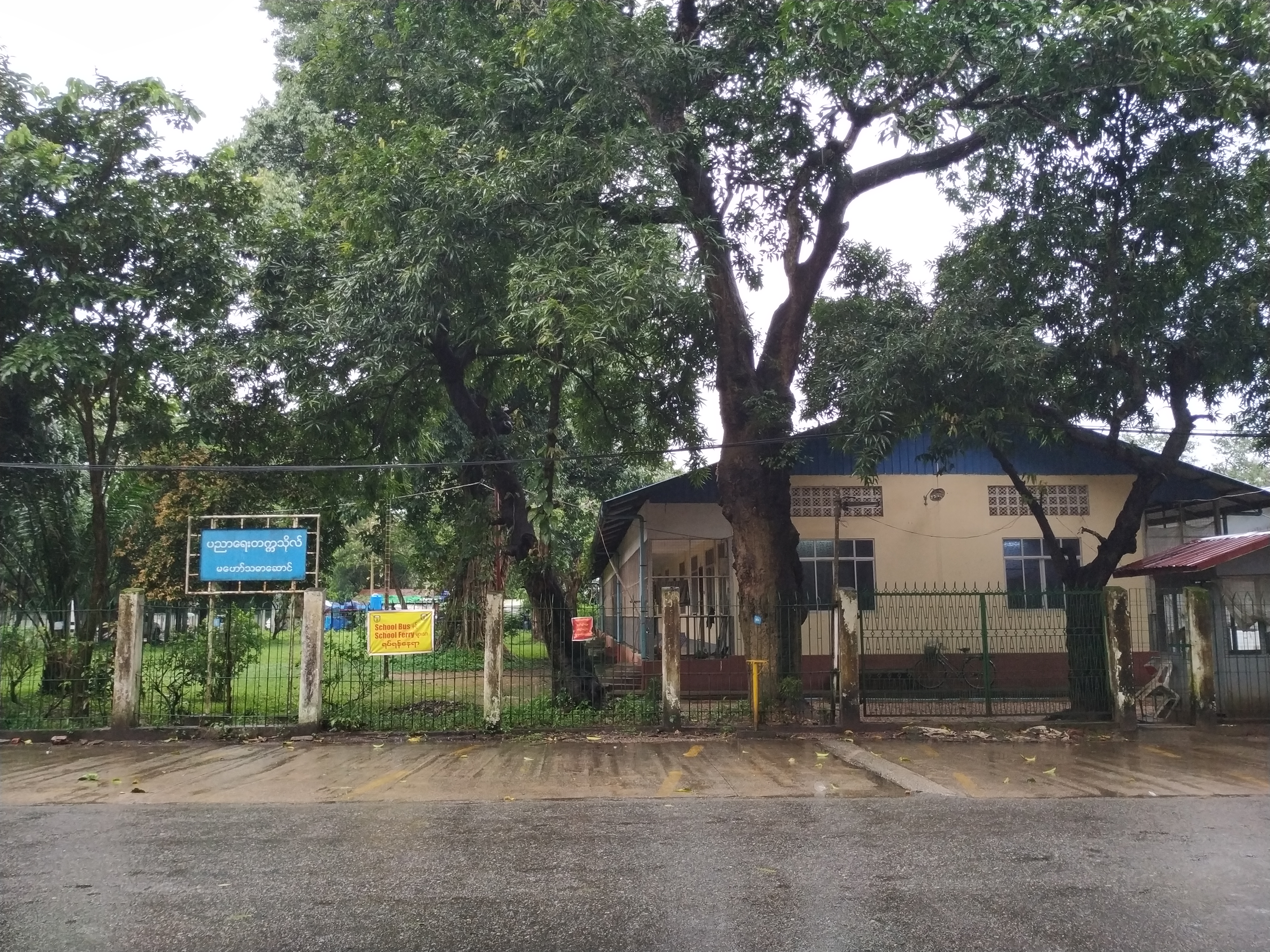 Ma Haw Tha Da Hostel, Yangon University of Education မြန်မာဘာသာ: မဟော်သဓာဆောင်၊ ရန်ကုန်ပညာရေးတက္ကသိုလ်